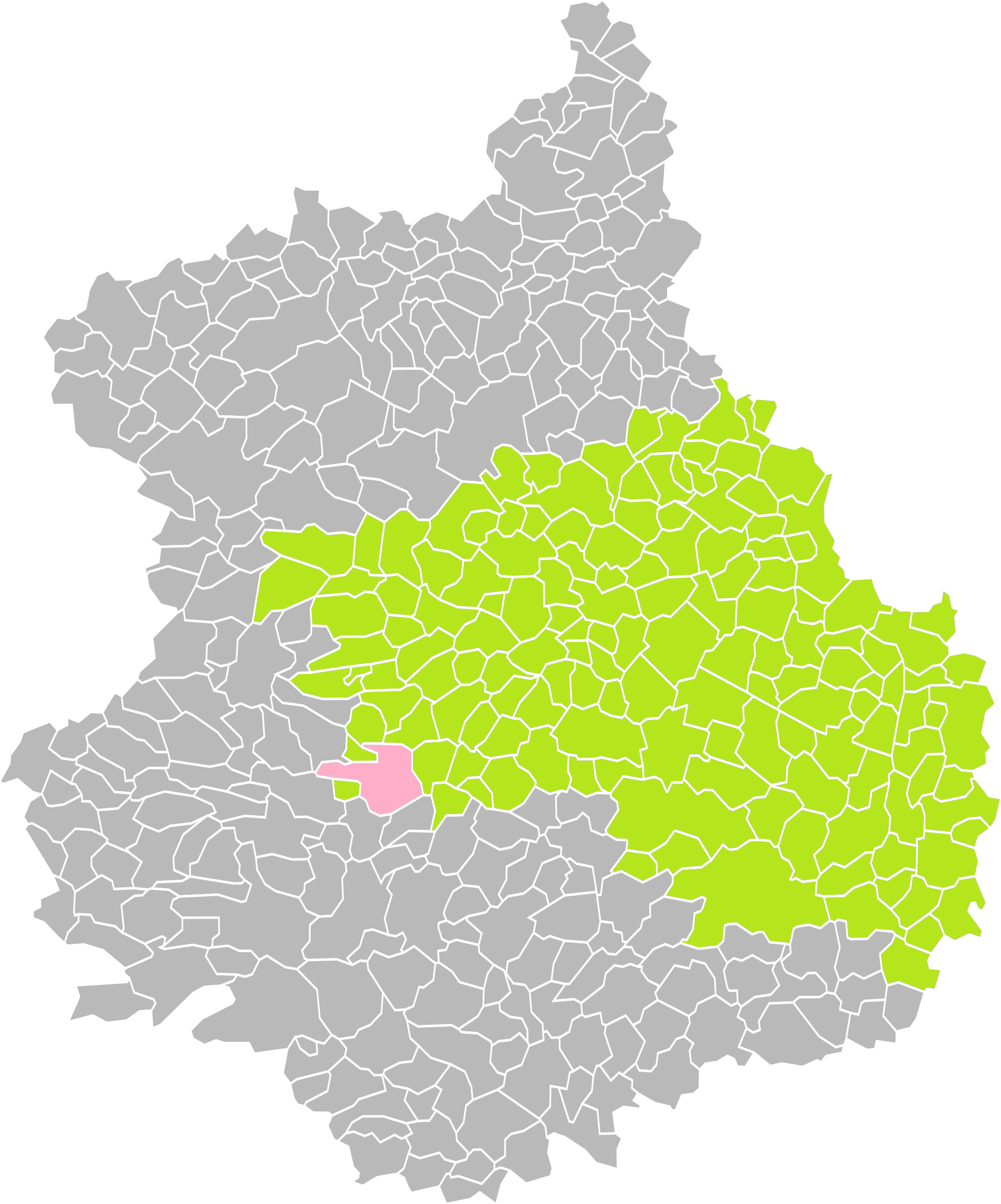 Location of the commune of Illiers-Combray in the arrondissement of Chartres (Eure-et-Loir)